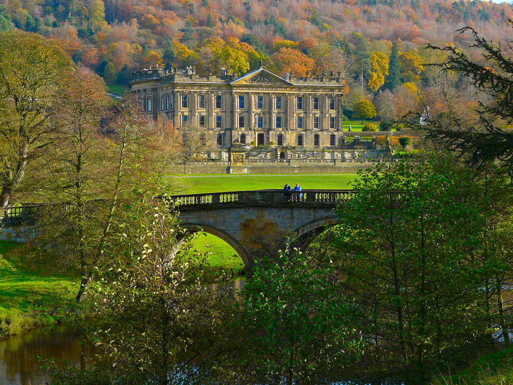 The West front of Chatsworth House with bridge built by James Paine in the foreground.